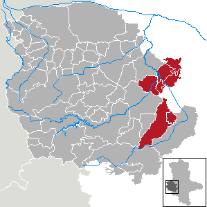 VG Ballenstedt/Bode-Selke-Aue in Saxony-Anhalt - District Harz